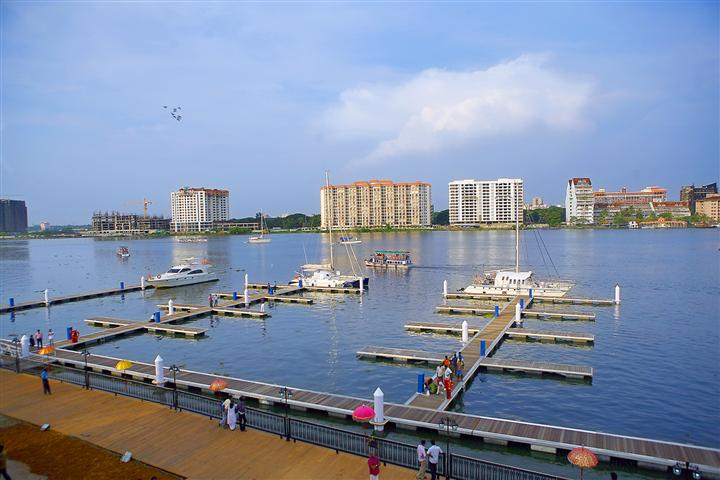 Kochi International Marina, India's first world-class marina, built in 2010 at the Bolgatty Island in Kochi, Kerala